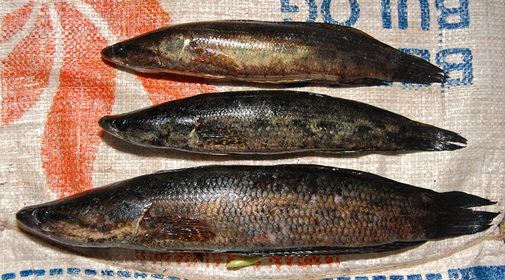 Several specimens of Channa lucius. From Mentaya Hulu, Central Kalimantan, Indonesia.